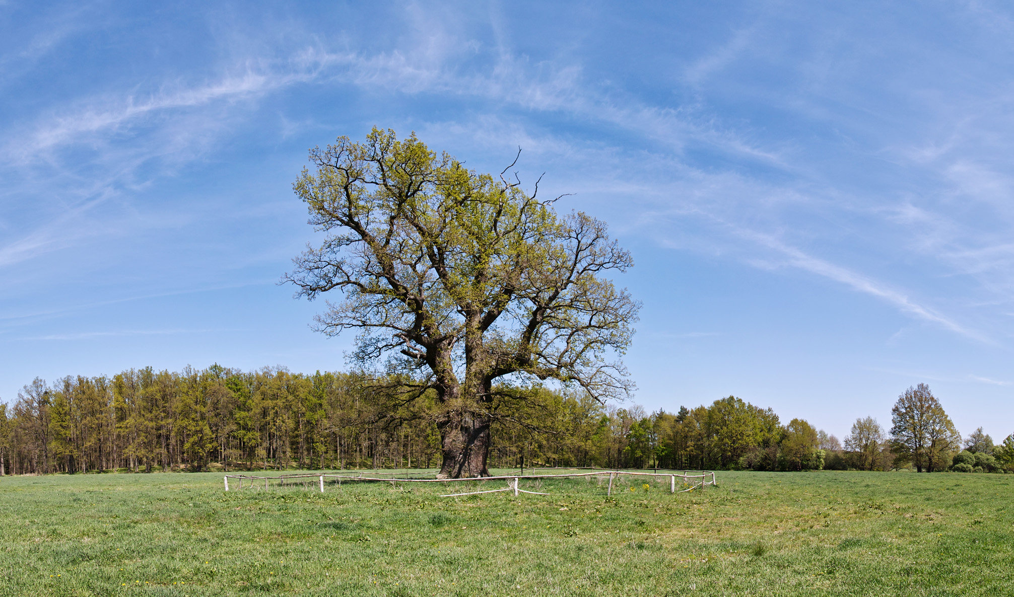 Giant oak near Jemcina, Czech Republic